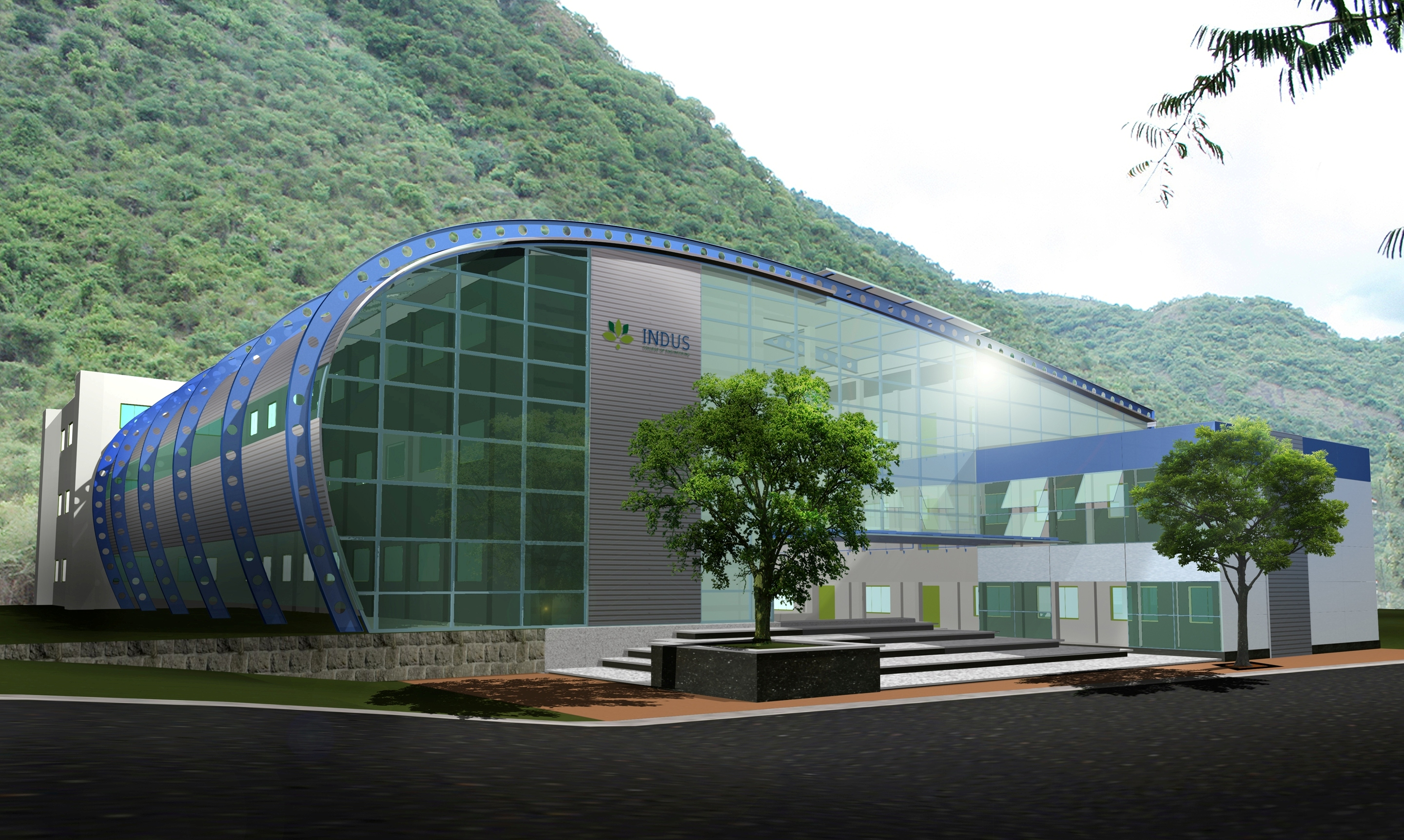 Coimbatore